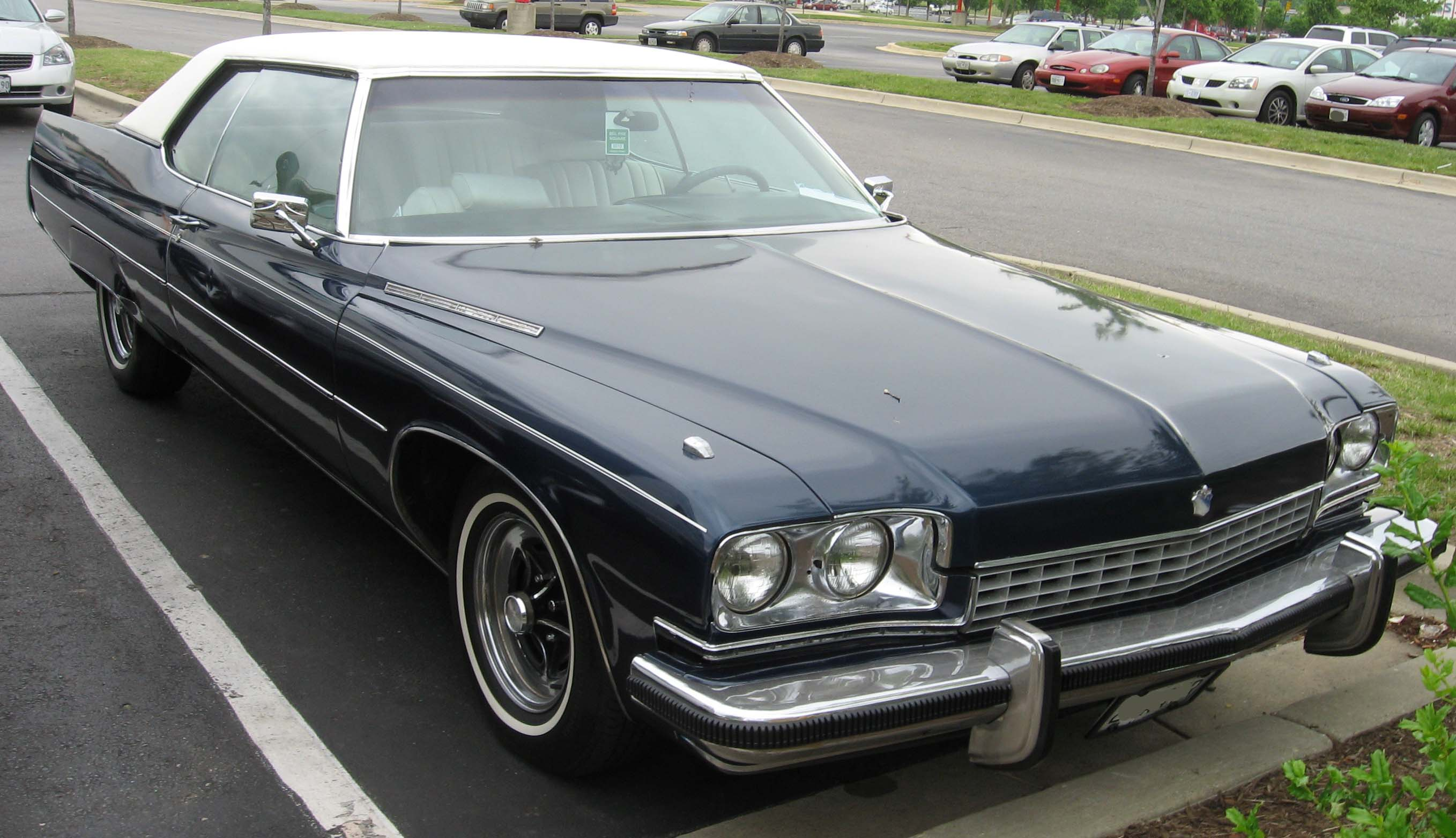 1973 Buick Electra photographed in USA.